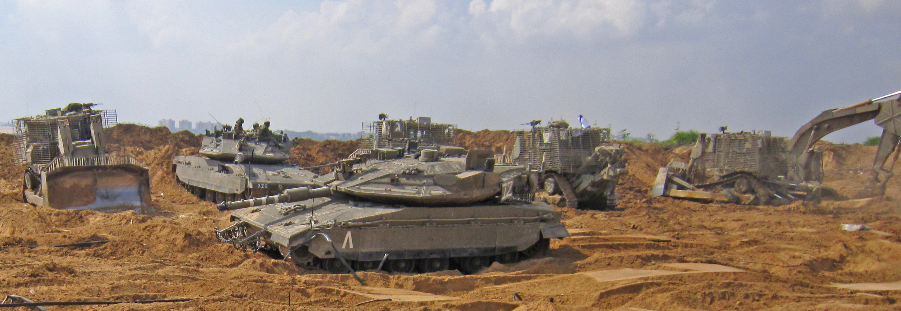 IDF Caterpillar D9 bulldozers, Merkava Mk 4m tanks and Caterpillar 349E excavator during Operation Protective Edge, 2014